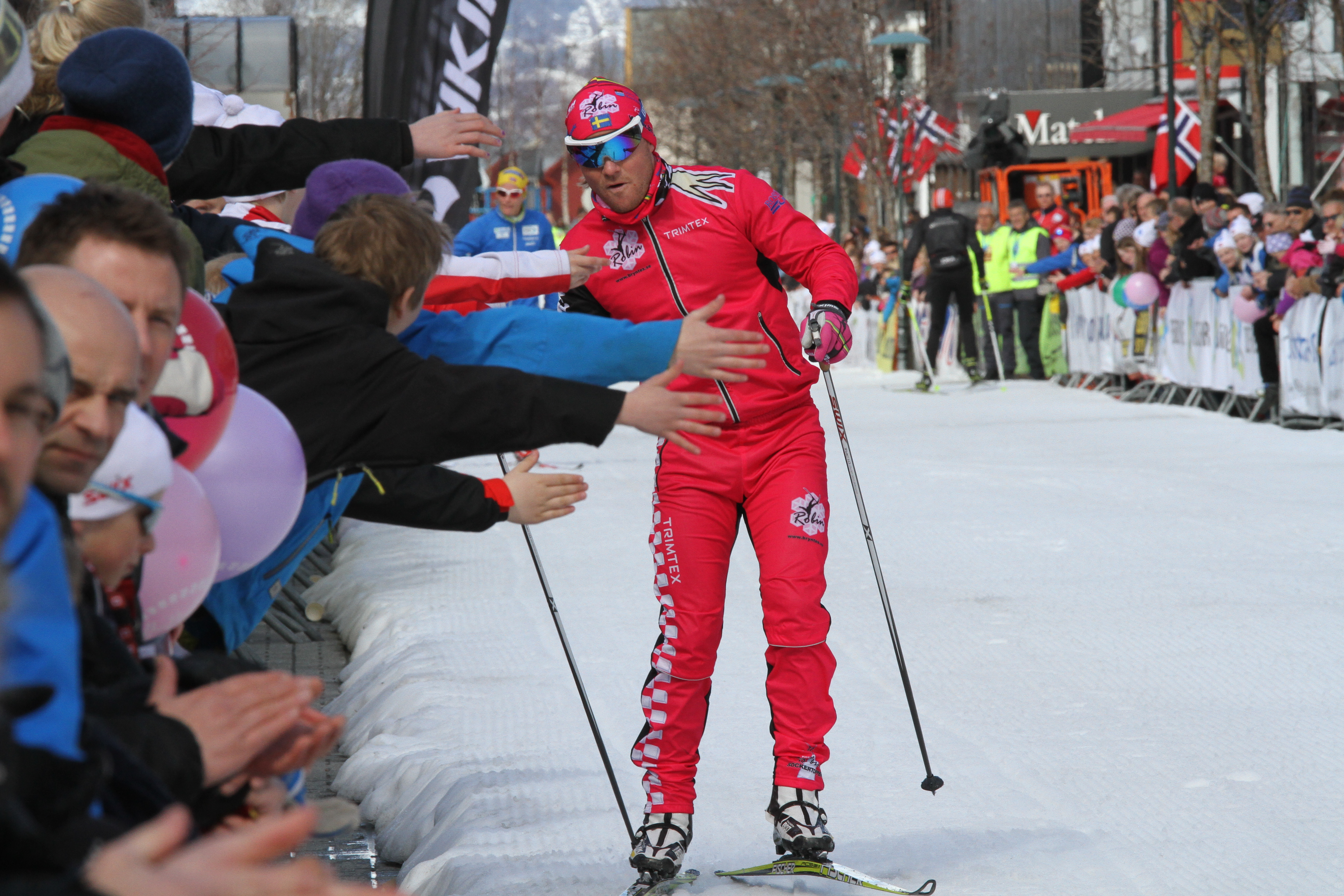 Swedish cross-country skier Robin Bryntesson at the exhibition sprint race "Bysprinten" in Mosjøen, Norway.